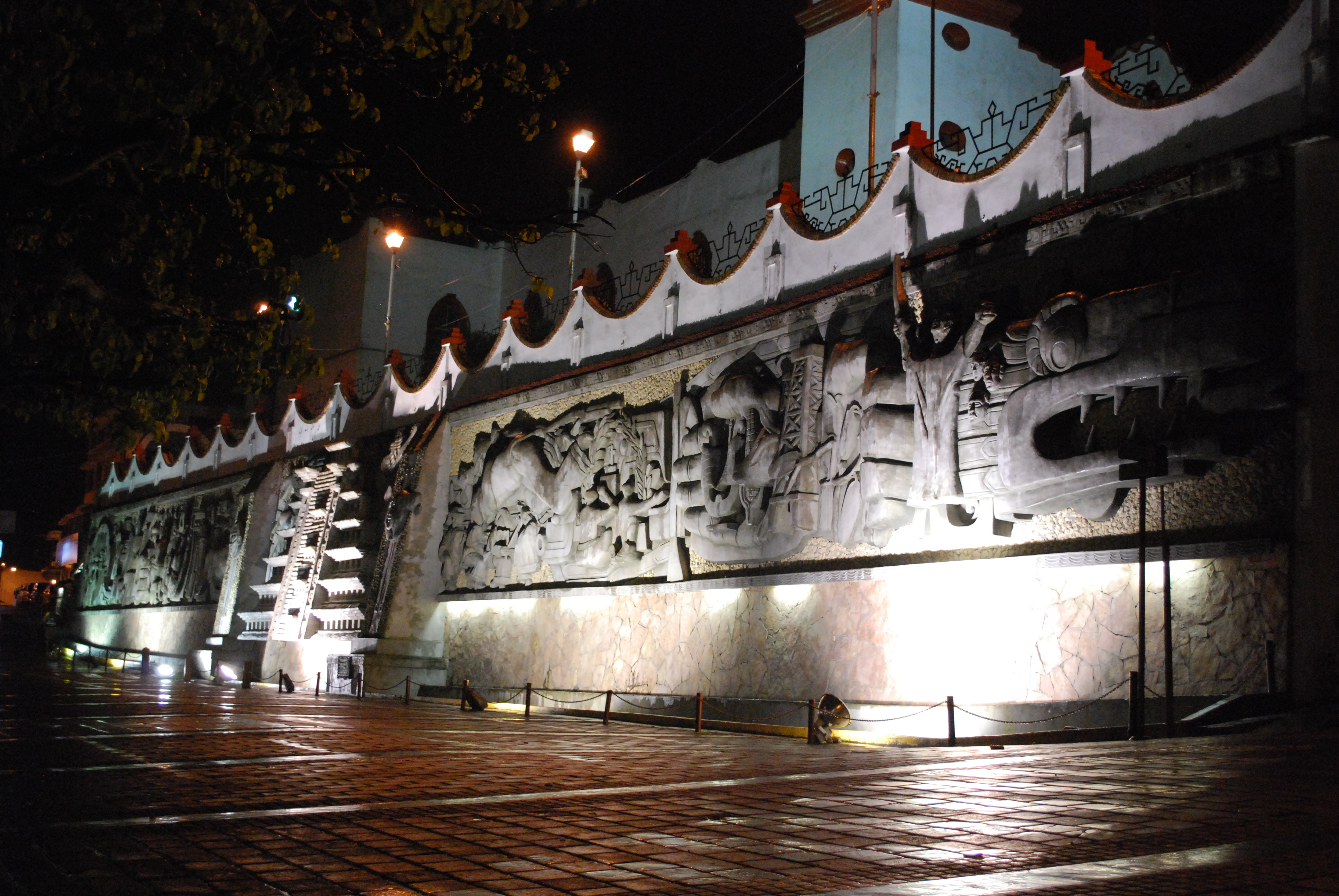 View of the mural by Teodoro Cano Garcia on the main church of Papantla, Veracruz at night.